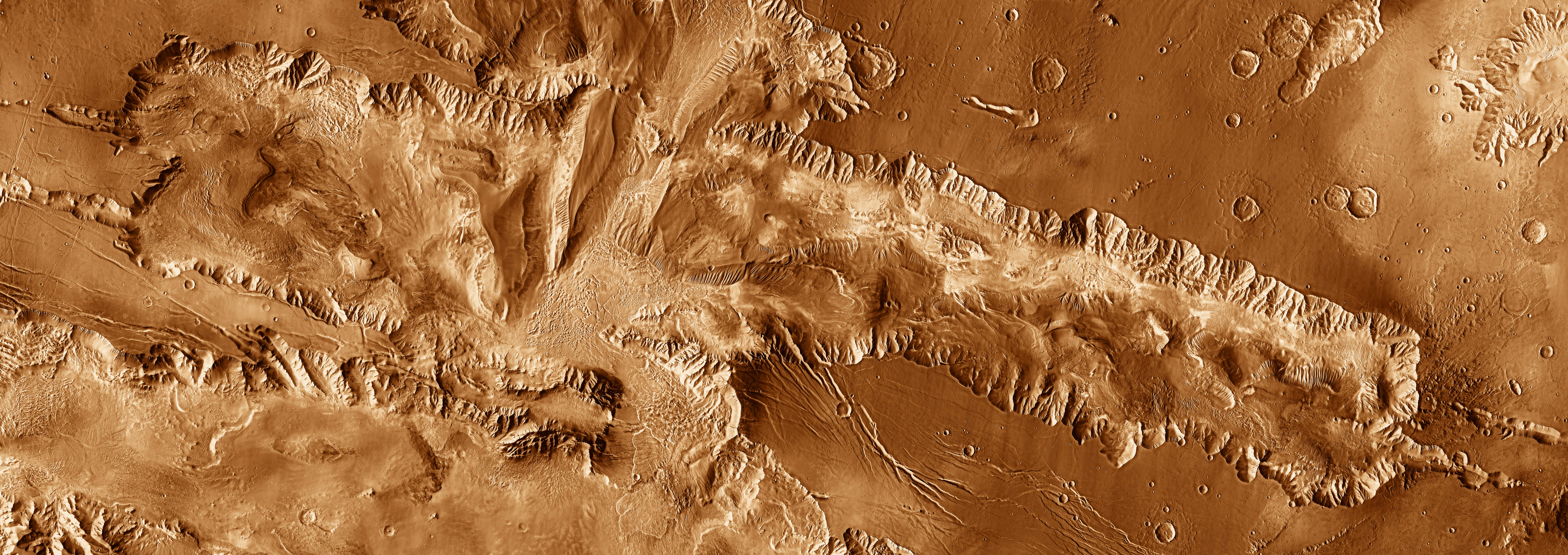 View of Candor Chasma, with portions of Ophir and Melas chasmata at the top and lower left, respectively, parts of the enormous Valles Marineris canyon system on Mars. This image was obtained by cropping a massive 23,711 × 11,856 pixel mosaic of NASA images, and adjusting in hue and saturation. The original caption for the mosaic reads in part as follows: This mosaic image of Valles Marineris - colored to resemble the martian surface - comes from the Thermal Emission Imaging System (THEMIS), a visible-light and infrared-sensing camera on NASA's Mars Odyssey orbiter. Mars Odyssey was built by Lockheed Martin and the mission is operated by the Jet Propulsion Laboratory. Built from more than 500 daytime infrared photos, the mosaic shows the whole valley in more detail than any previous composite photo. Despite the valley's huge extent - including its western extension through Noctis Labyrinthus, it reaches some 3,000 kilometers (2,000 miles) long - the smallest details visible in the image are about the size of a football field: 100 meters (328 feet).